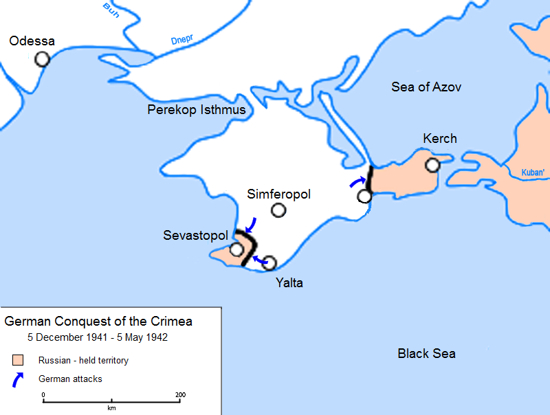 German conquest of the Crimea, 5 December 1941 to 5 May 1942